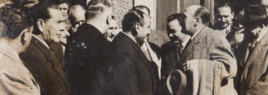 Rinaldo Viviani, elected gobernor of San Juan province, Argentina with his goberment staff includes Abel Soria Vega y Julio Marún